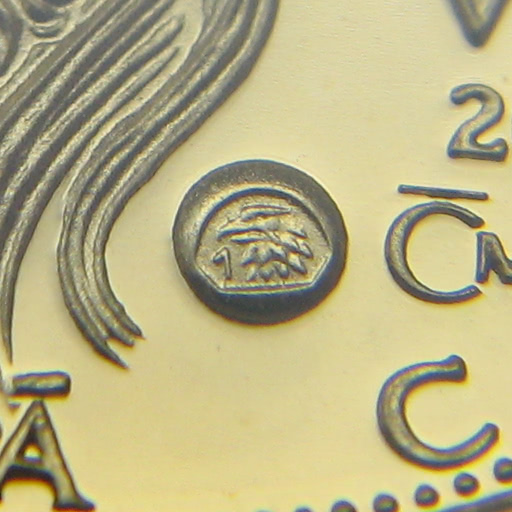 Czechia gold hallmark number 1 (986/1000 Au) in the center, magnified.